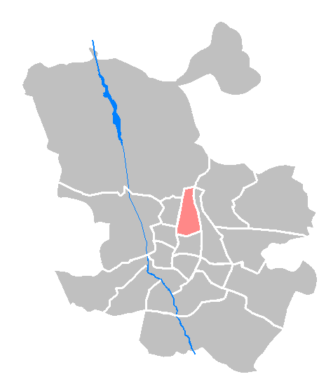 Locator maps of districts in Madrid: Maps - ES - Madrid - Chamartin.PNG